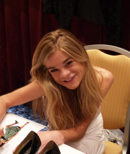 The source of the image is someone who took the picture of Ellen at Dragon*Con. This person granted permission to use the image on wikipedia. This person also said that he considers anything he uploads to the internet as public domain.